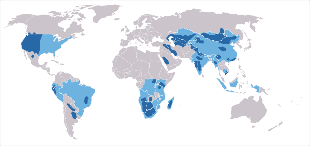 Reported pest cases and presence in animals Deutsch (de): Pestmeldungen 1970–1998. Vorkommen des Erregers in Tieren. English (en): Countries with reported cases, 1970–1998. Presence of the pathogens among animals. français (fr): Cas de peste rapportés, 1970–1998. Présence du pathogène chez les animaux.